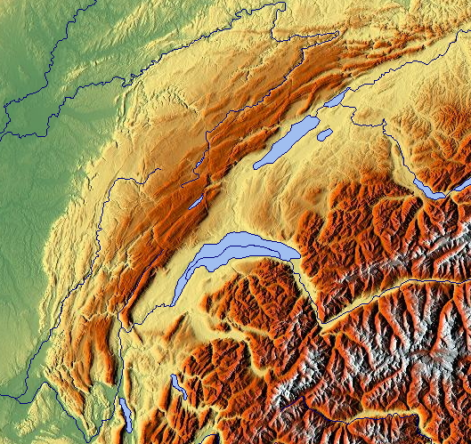 Jura mountains in France and Switzerland, together with adjacent areas of the Alps.